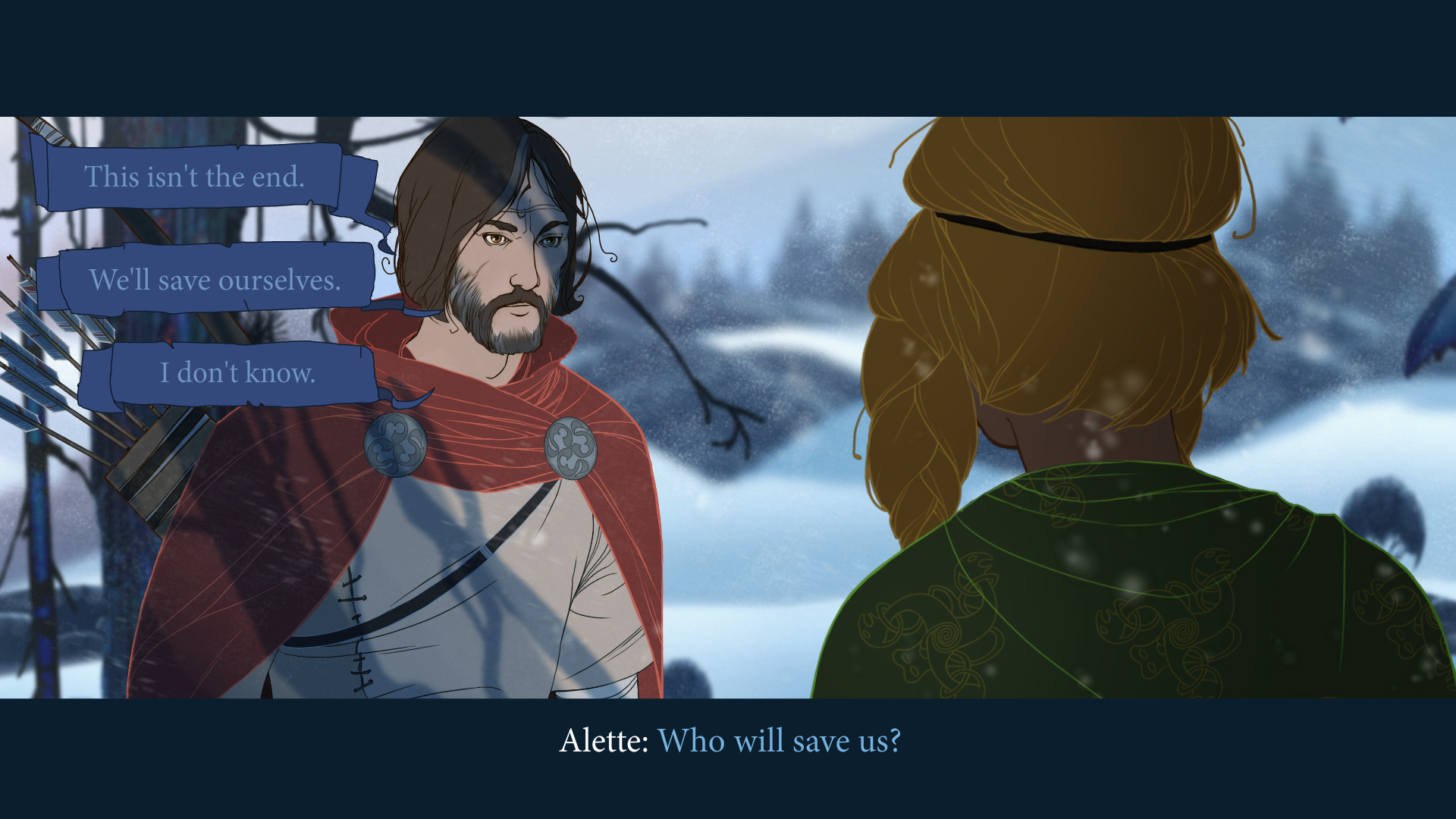 Development artwork from the video game The Banner Saga.